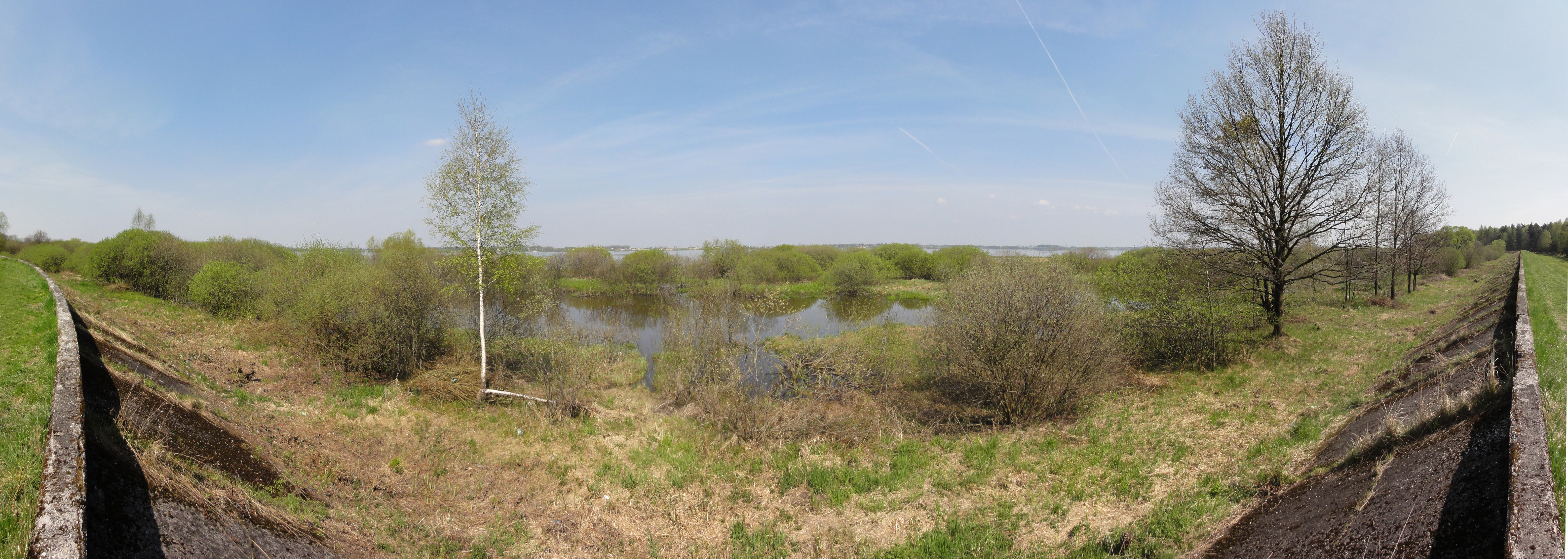 Goczałkowice Lake seen from a shore in Zarzecze, over 80% of former Zarzecze has been drowned by waters of Goczałkowice Reservoir in 1955. Wisła Mała and Wisła Wielka in Pszczyna County are seen on northern shore.